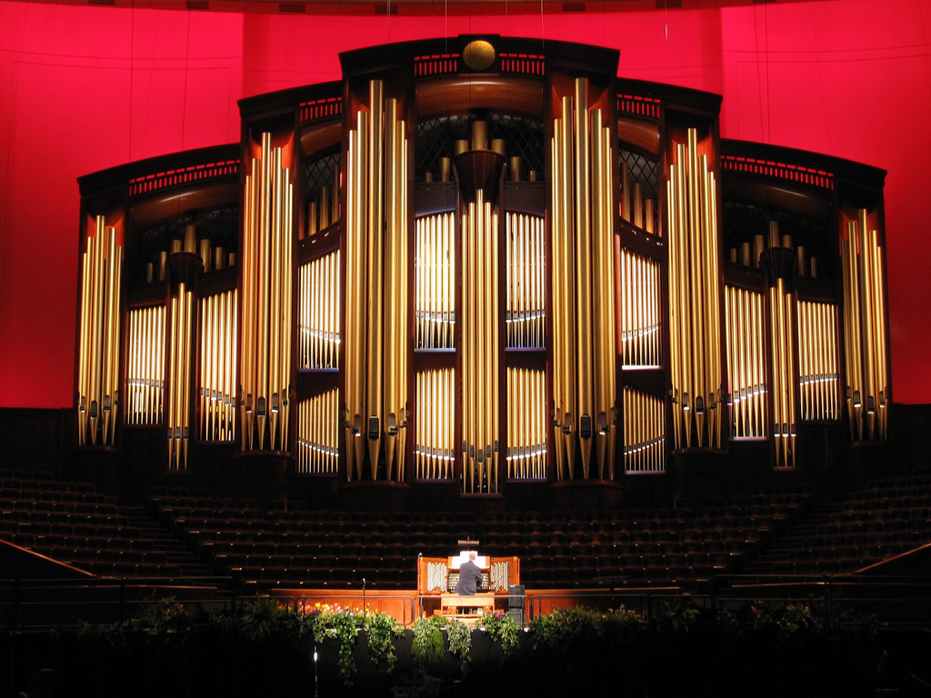 The Schoenstein pipe organ located in the Conference Center of The Church of Jesus Christ of Latter-day Saints in Salt Lake City, Utah. 7667 pipes